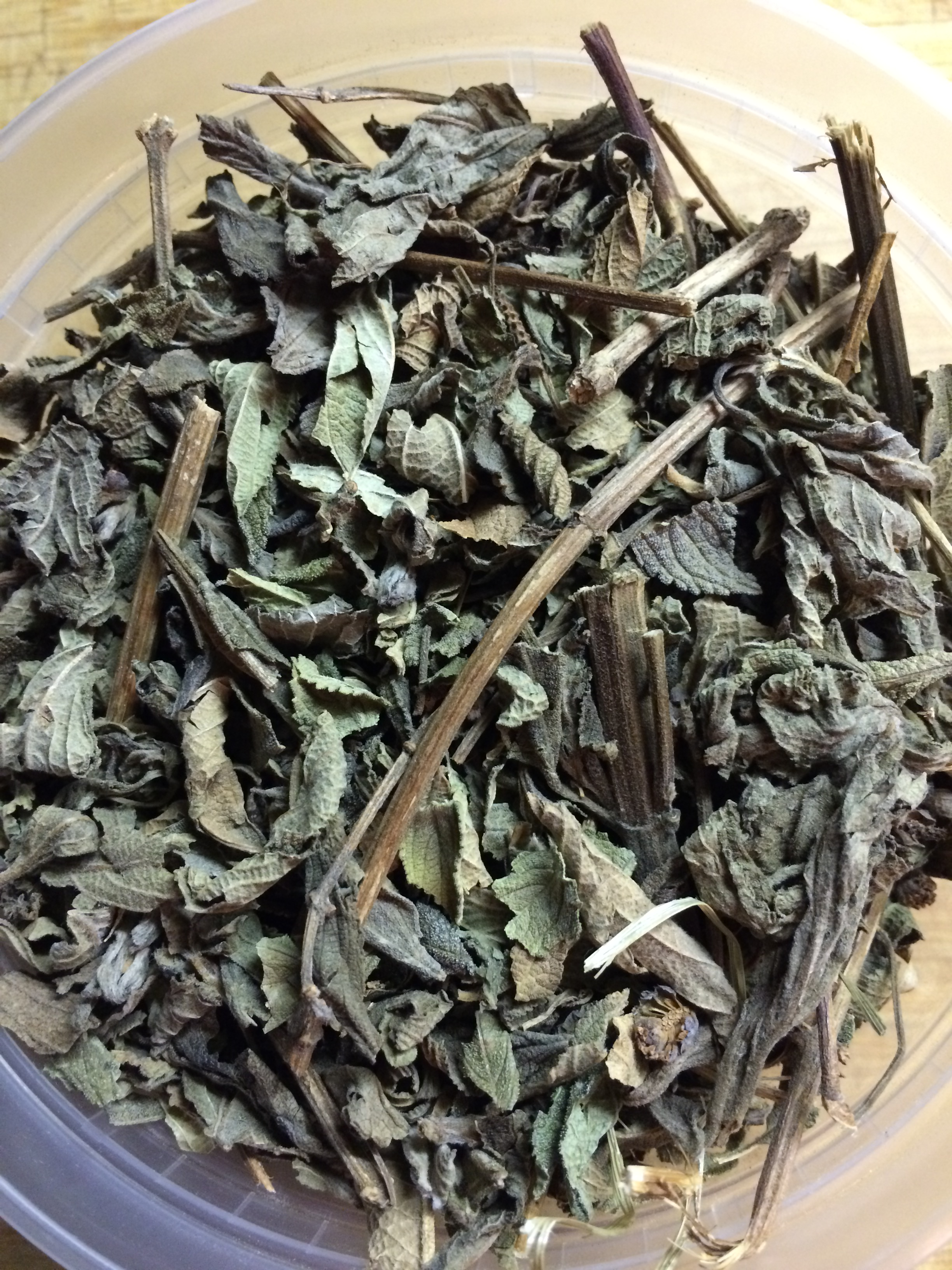 The herb koseret (Lippia abyssinica) ኮሰሬት